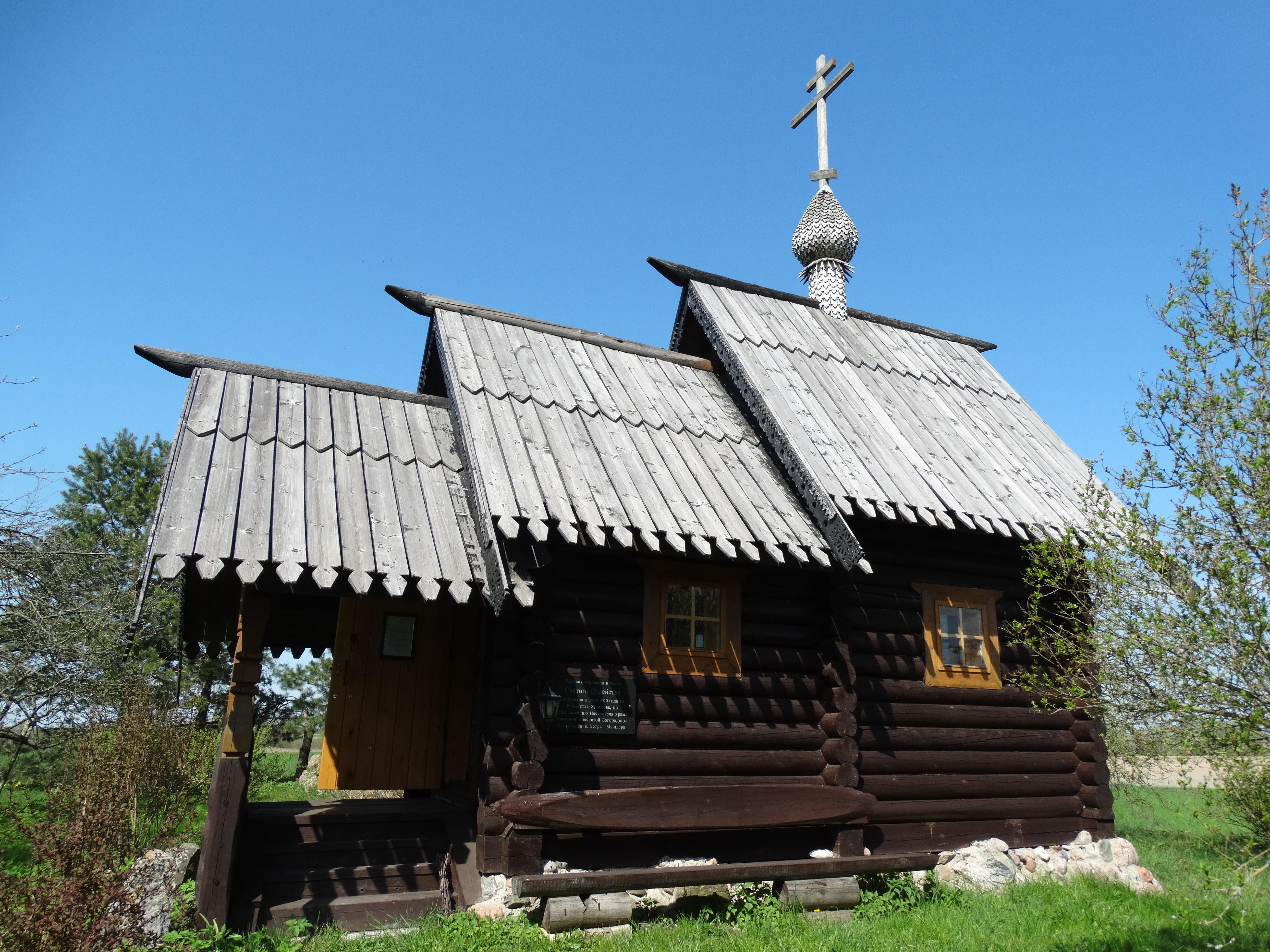 Orthodox chapel in Davonys, Širvintos District, Lithuania